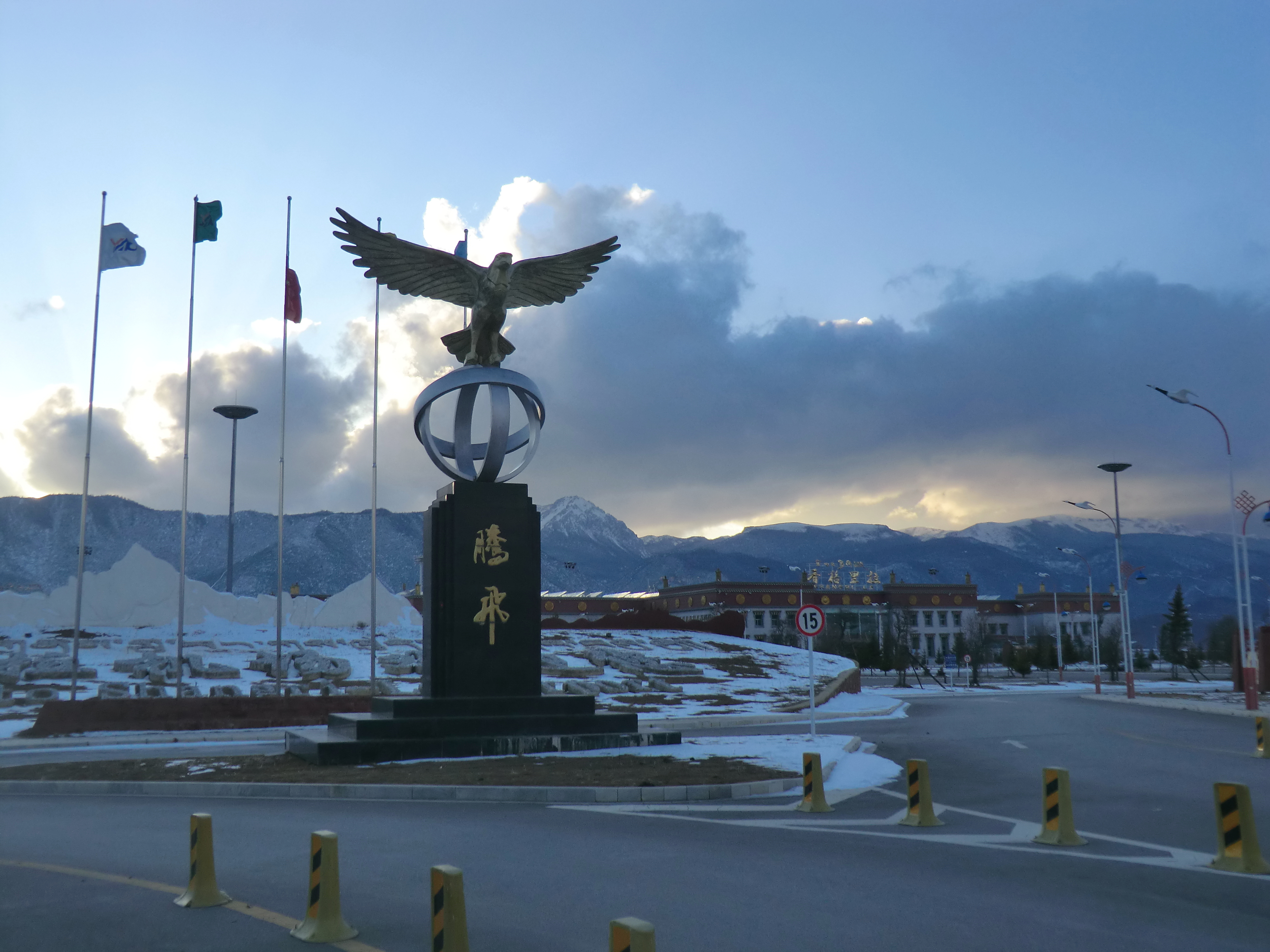 Shangri-la Airport (DIG), Yunnan, China